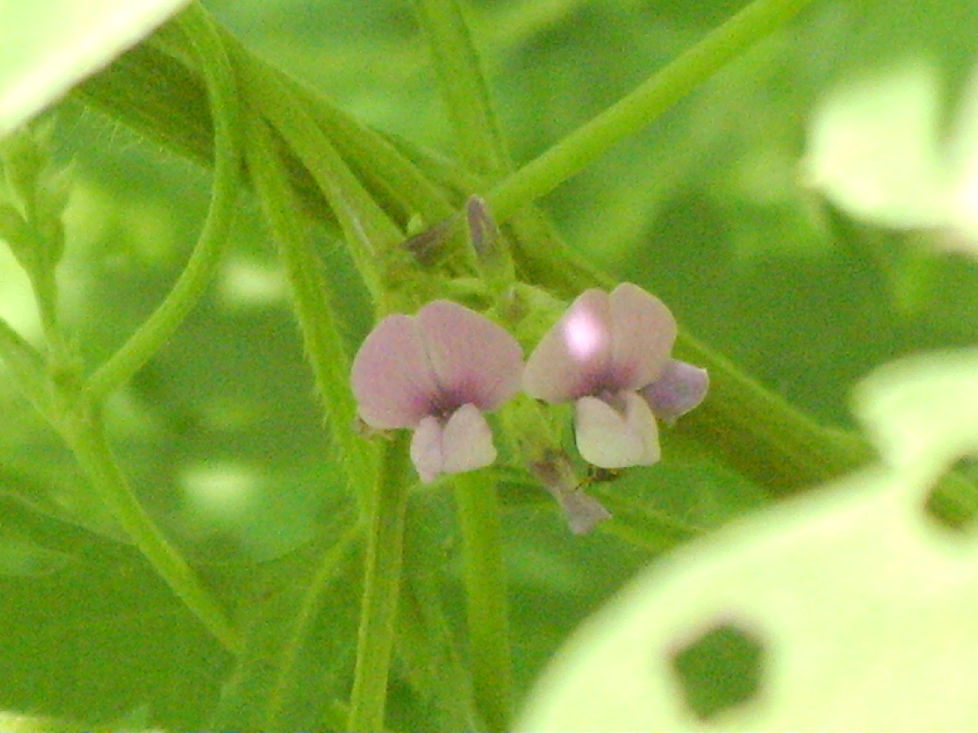 Glycine soja in Woninjae, Korea